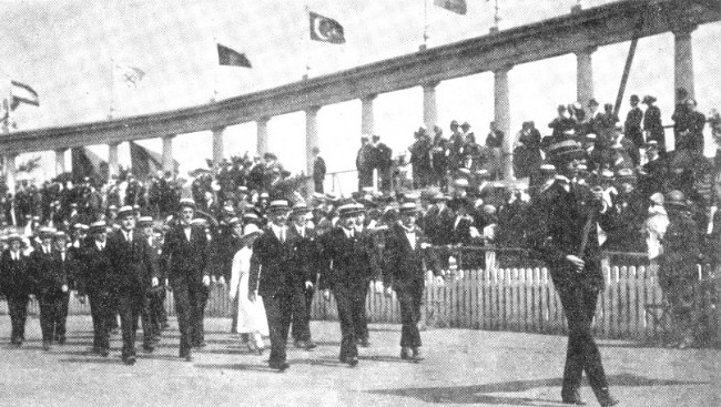 The Norwegian athletes at the 1920 Summer Olympics. Helge Løvland is holding the flag (at the front).